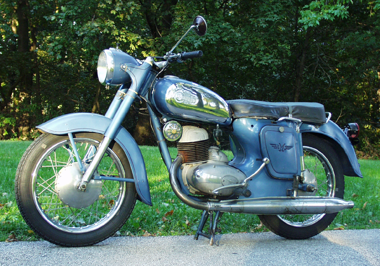 1966 Balkan 250C